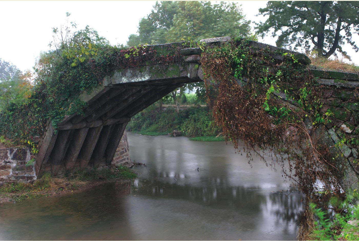 13th-century Guyue Bridge. A single span stone arch bridge built during the Song Dynasty in 1213. "Gu" means ancient, "yue" the moon, so "Guyue Bridge" literally means the bridge of the ancient moon. Located in Yiwu — Jinhua prefecture, Zhejiang province, China.